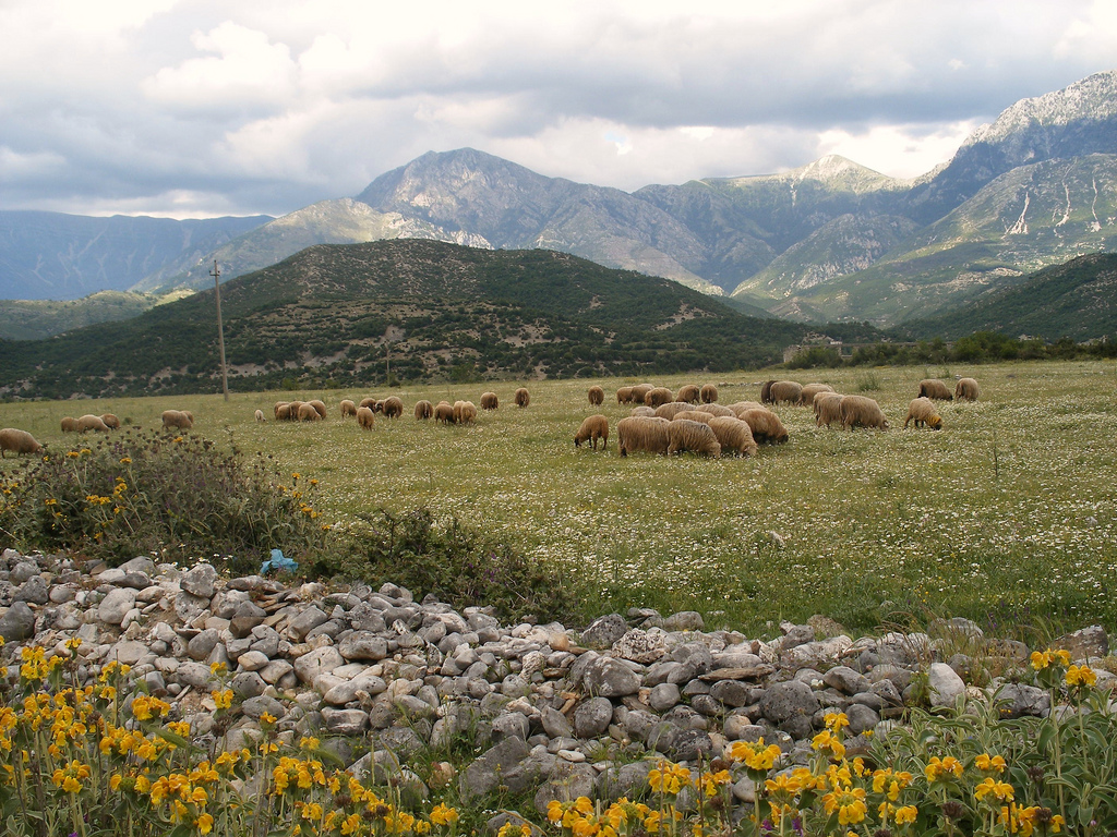 A pasture in Southern Albania